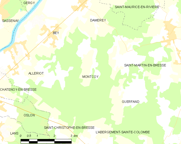 Map of French municipality